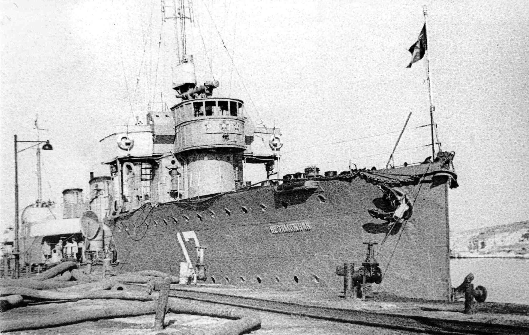 Soviet destroyer Nezamozhnik.